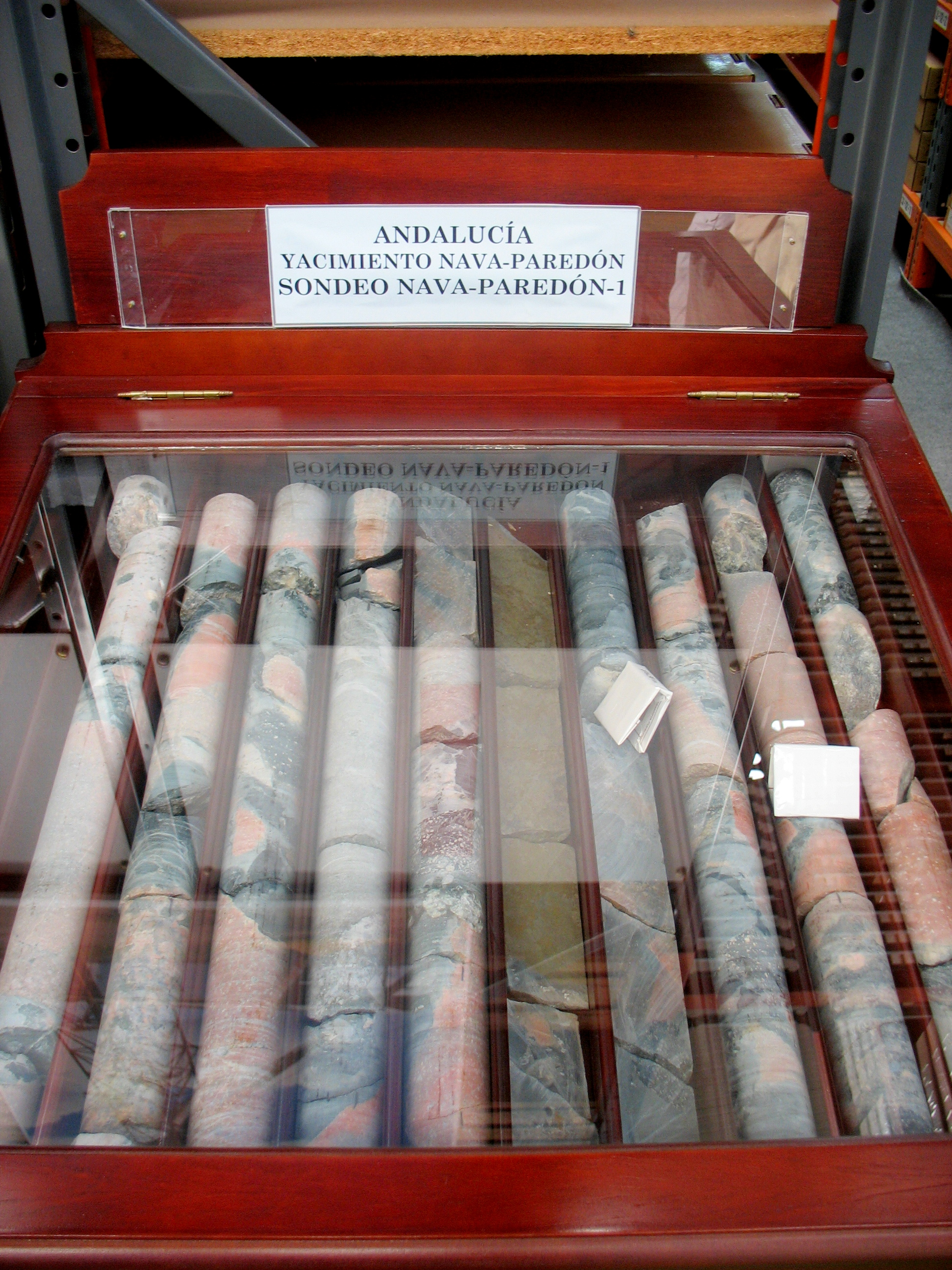 Geological and Mining Institute of Spain Drill core repository, Peñarroya, Cordoba, Spain.